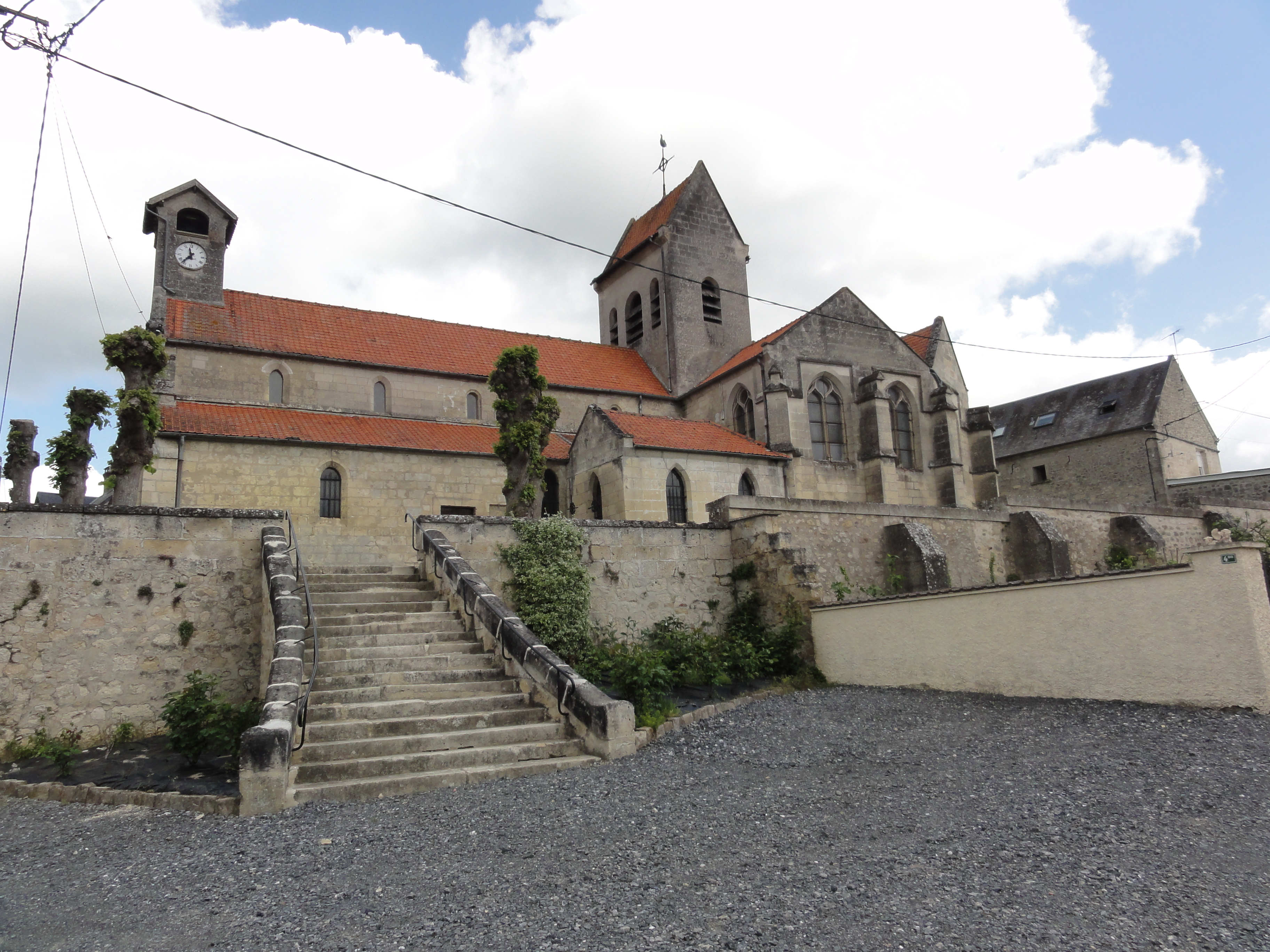 Faucoucourt (Aisne) église